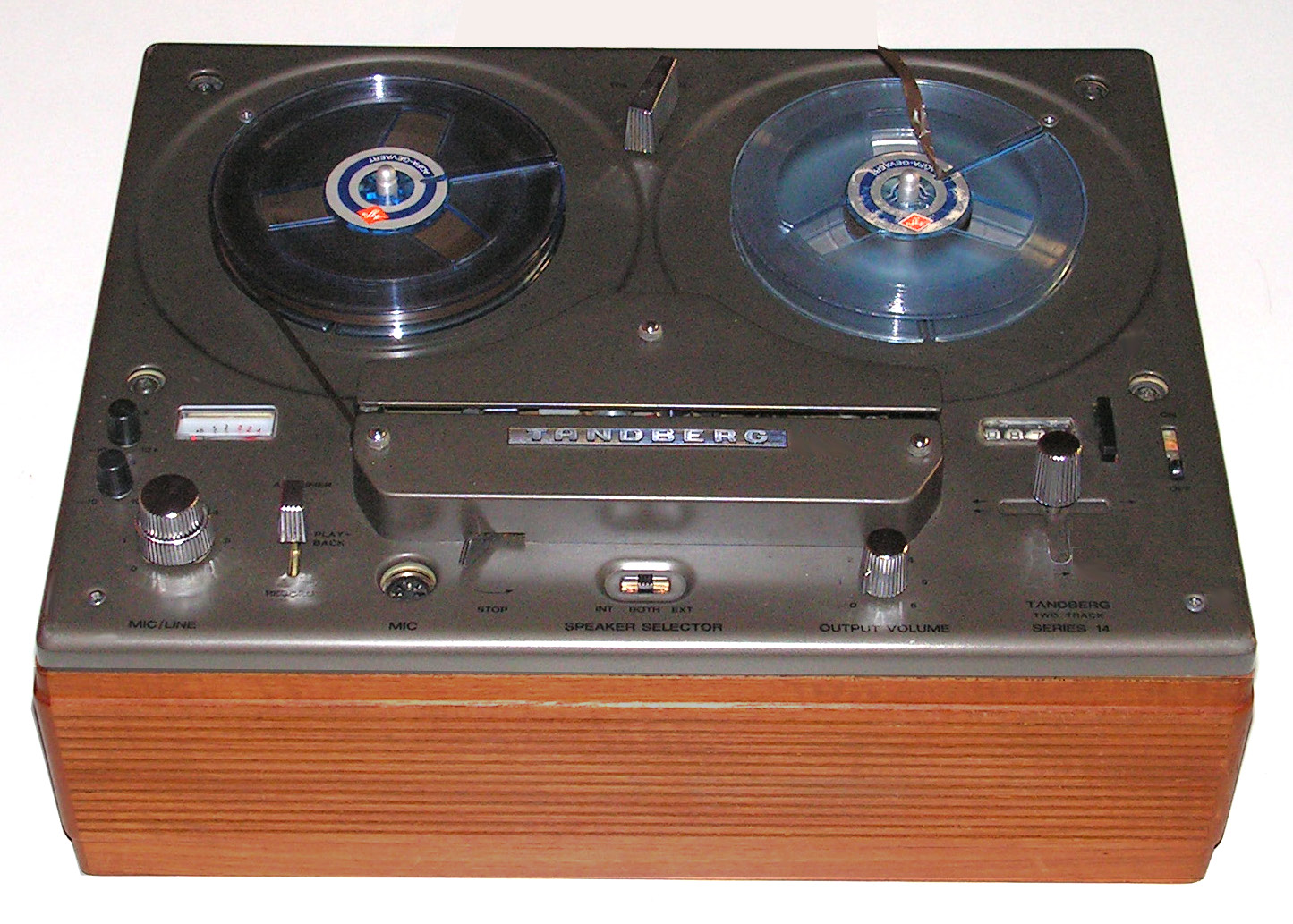 Reel-to-reel audio tape recorder, Tandberg Serie 14